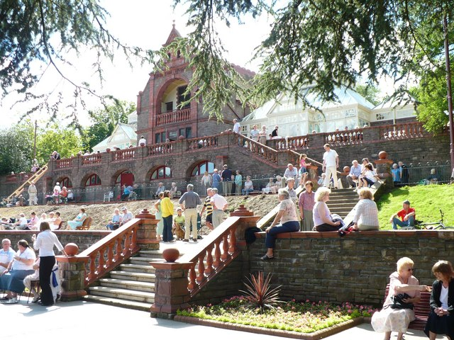 The Pavilion and Terrace, Belle Vue Park